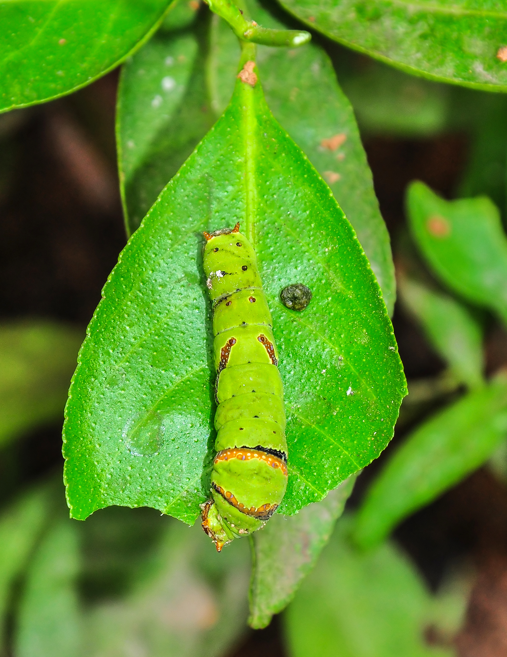 Papilio polytes caterpillar. Photographed at Burdwan, West Bengal, India.